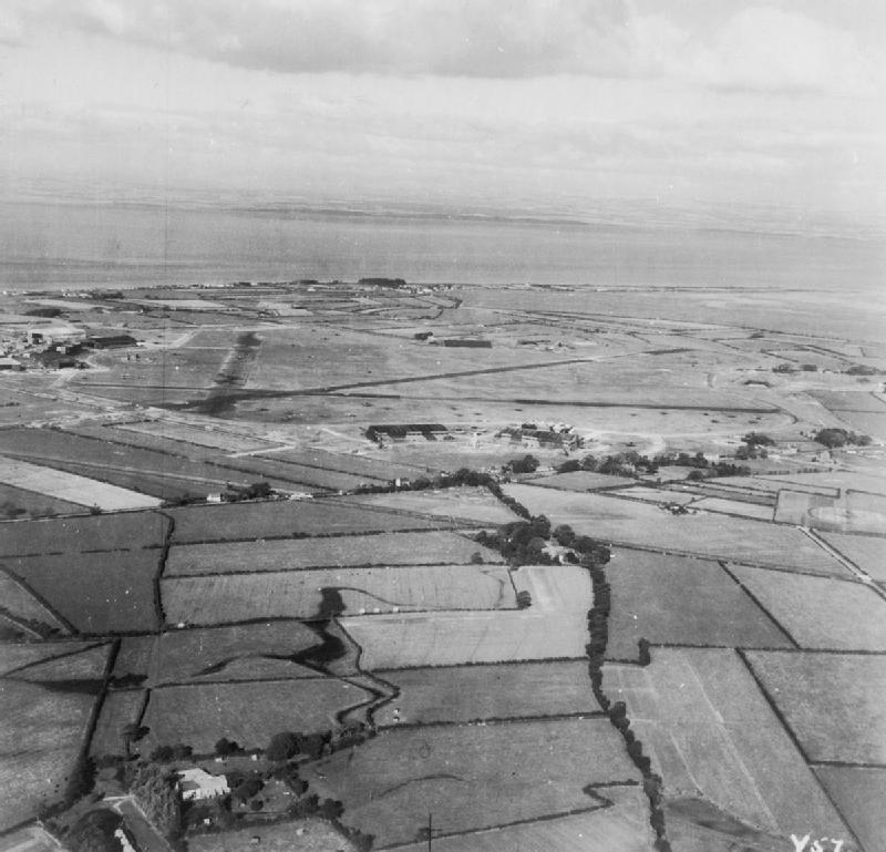 Aerial photograph showing the camouflaged RAF Silloth airfield, Cumberland, England, from the south.